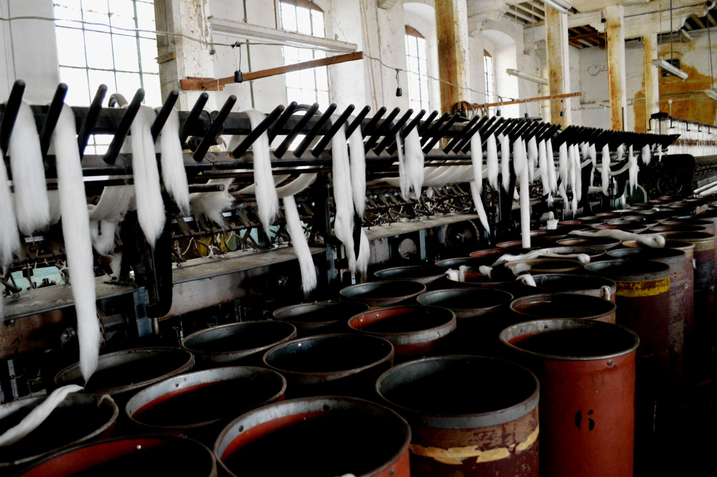 Abandoned equipment with cotton fibers hanging at the Fábrica San Pedro in Uruapan, Michoacan, Mexico